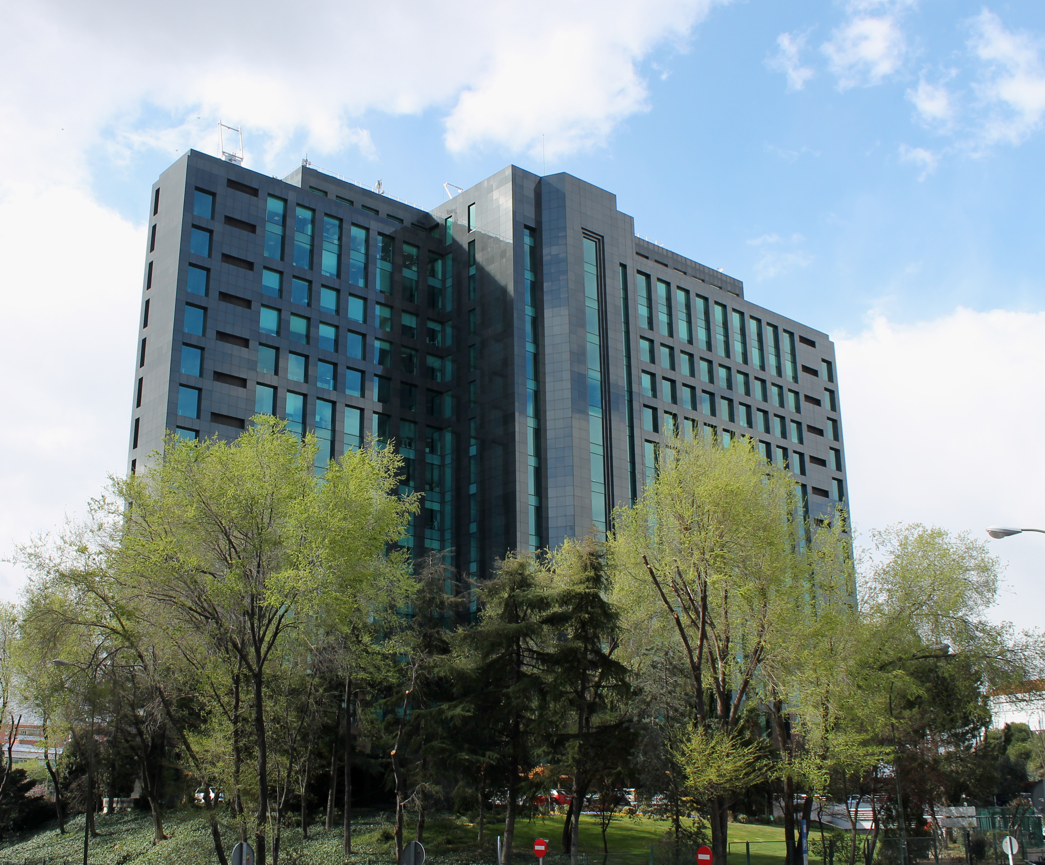 Façade of Herre Building in Madrid (Spain).